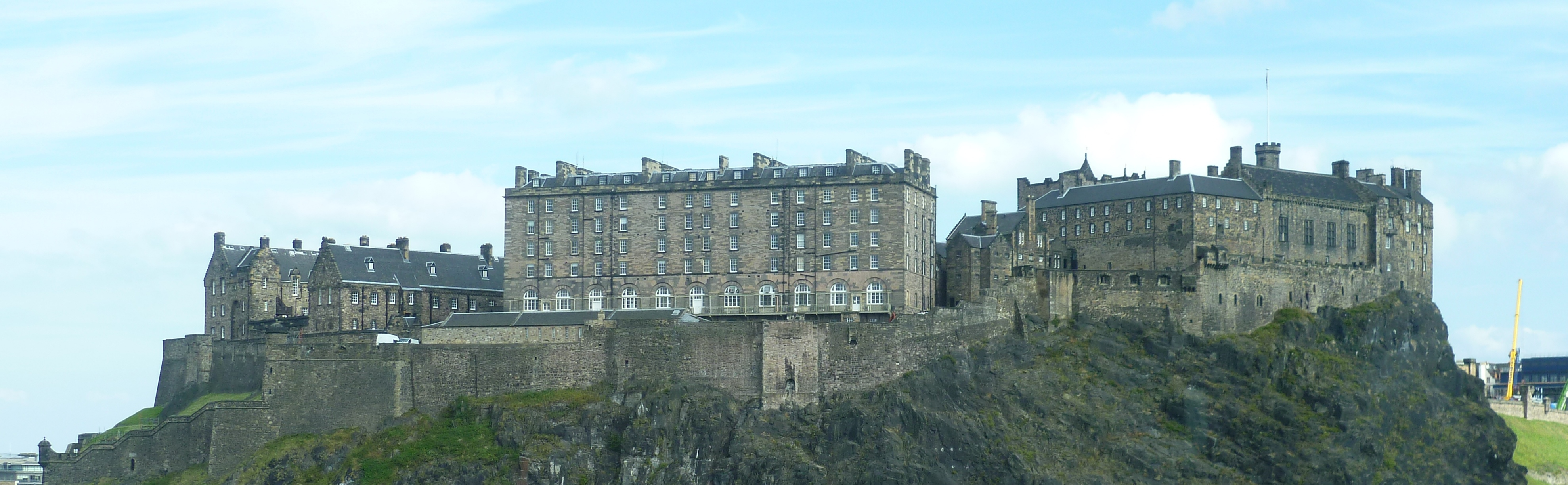 Edinburgh Castle from the south west